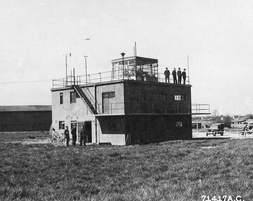 The 390th Bomb Group's control tower at Framlingham,Suffolk,England (Station 153) on May 22,1944.